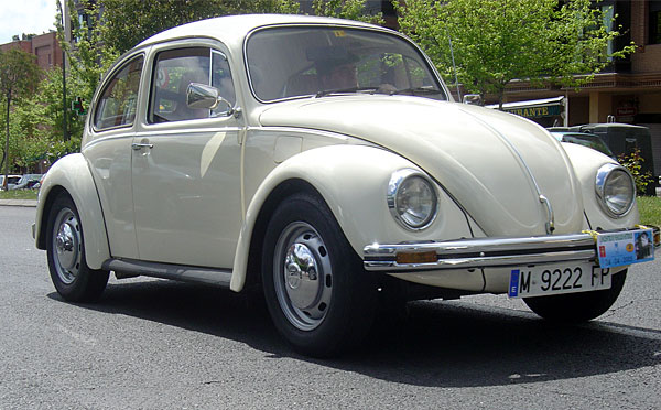 VW Beetle from Madrid.